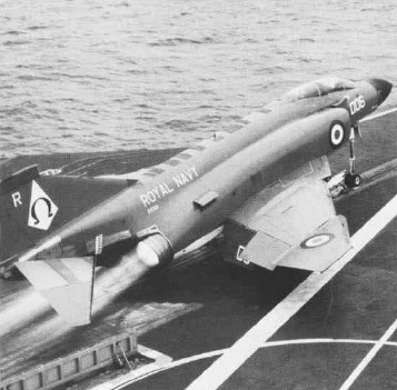 A McDonnell Douglas Phantom FG.1 (F-4K) of No. 892 Squadron launching from the British aircraft carrier HMS Ark Royal (R09), in September 1971. Note the massive reheat of the Rolls-Royce Spey engines, which used to buckle the decks of U.S. Navy carriers, when a F-4K was occasionally launched. The photo was taken during cross-deck operations with the U.S. Navy carrier USS Independence (CVA-62) during the NATO exercise "Royal Knight" in the North Atlantic.